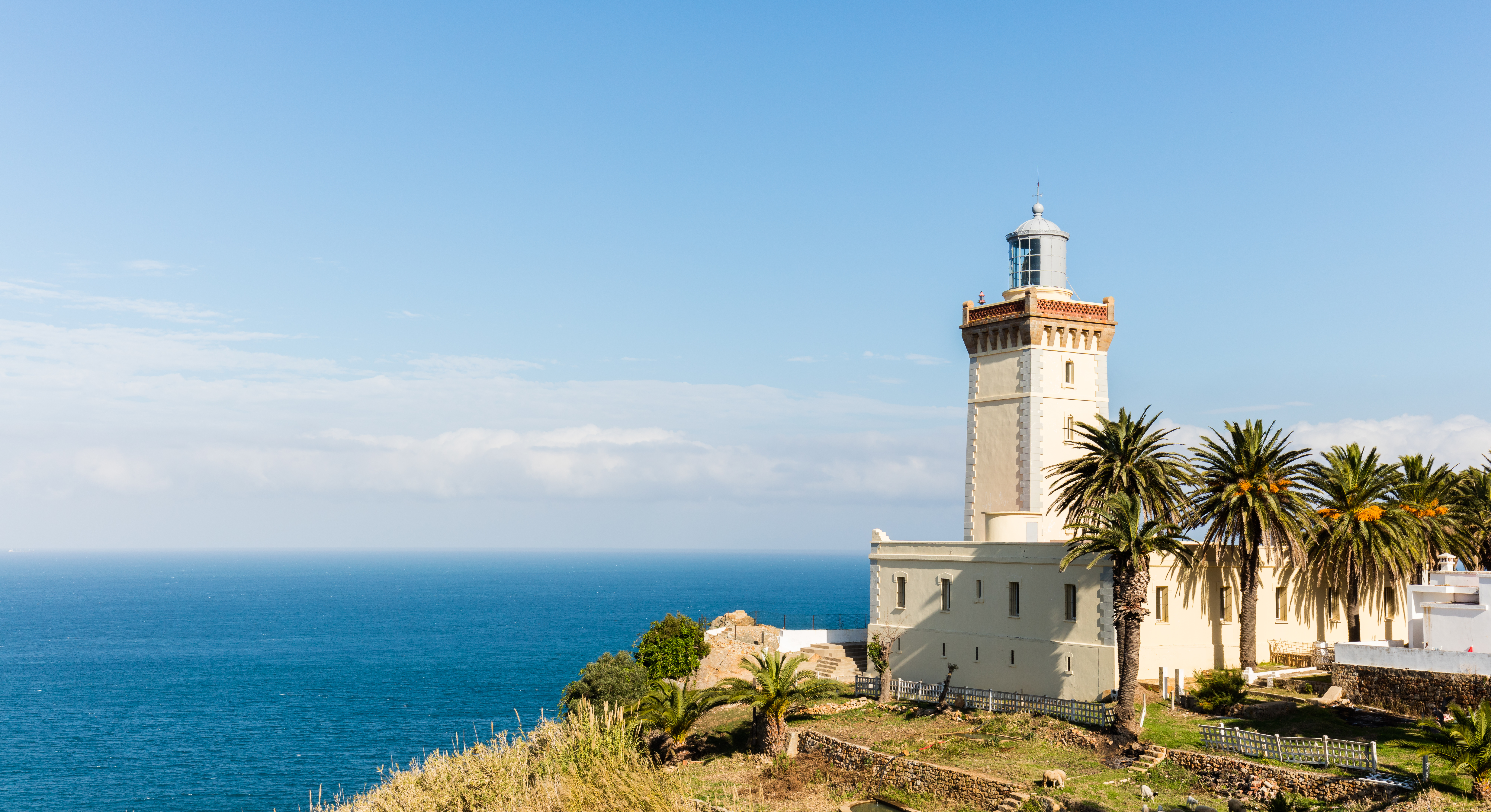 Lighthouse of Cape Spartel, near Tangier, northern Morocco. The 24 metres (79 ft) hight lighthouse was constructed between 1861 and 1864 and and was a prime example of international agreement, in this case between the British, French, Spanish, and American governments that supported the lighthouse’s construction, and also agreed its neutrality in case of war.